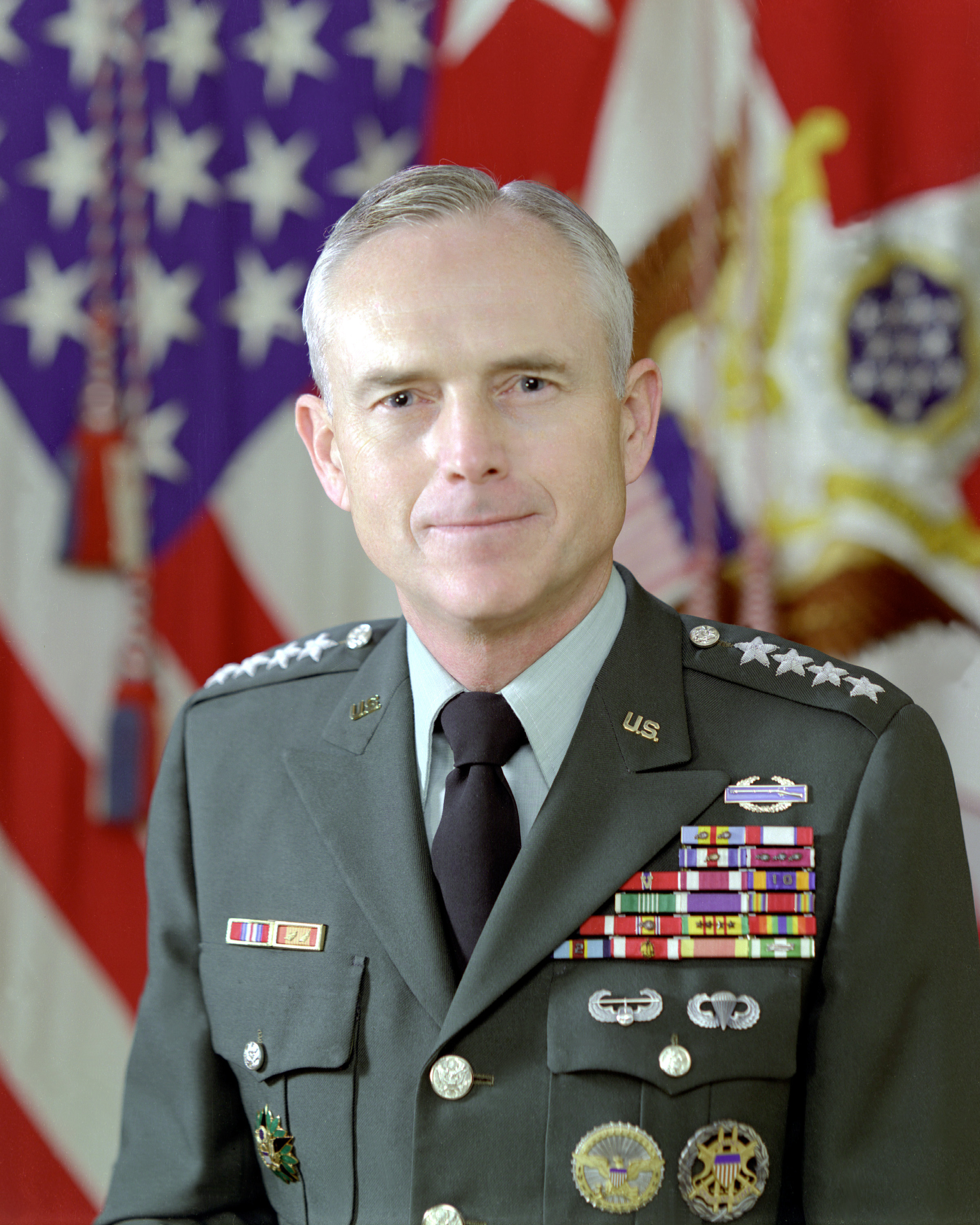 John Wickham, former Chief of Staff of the U.S. Army.